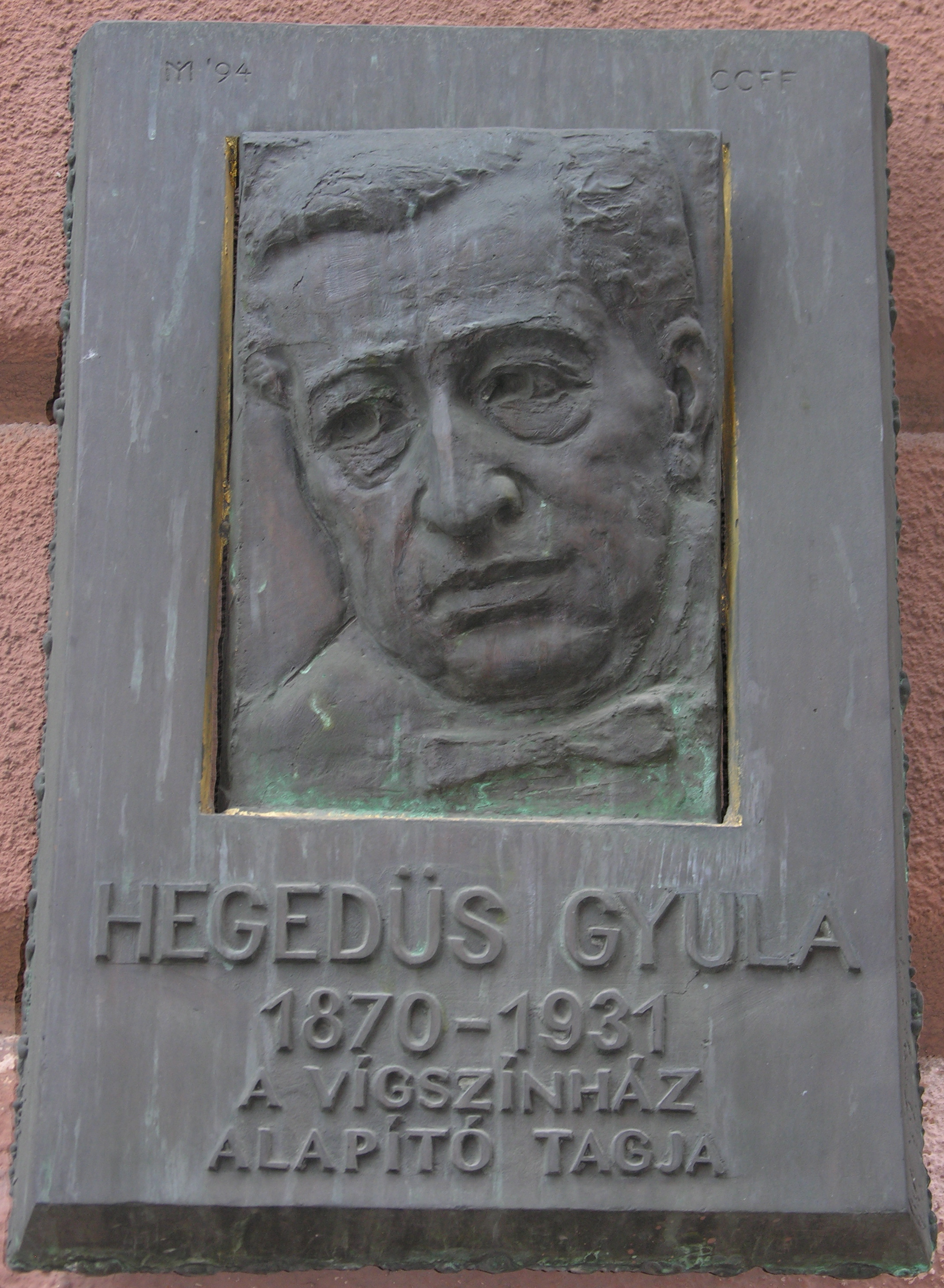 Commemorative plaque of the actor Gyula Hegedűs, Budapest District XIII, Hegedűs Gyula Street No 2